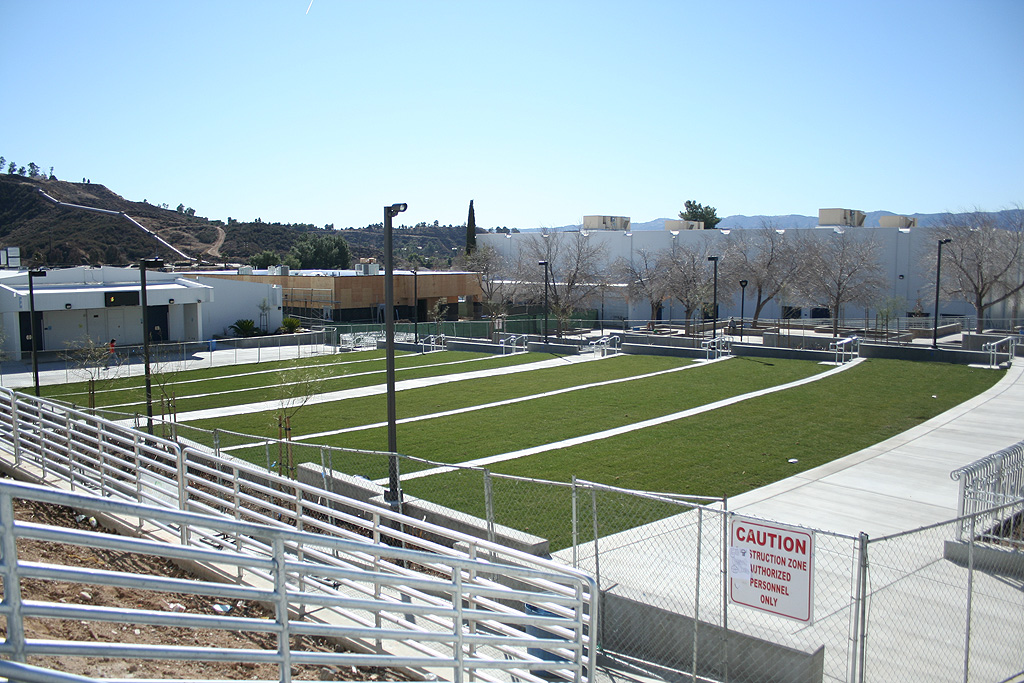 The newly renovated amphitheater remains unopened until the grass grows in. The other half of the "quad" remains intact, as well as the stage in the front. The new cafeteria can be seen in the back, being built from the ground up after a televised demolition on SNN of the previous food court.